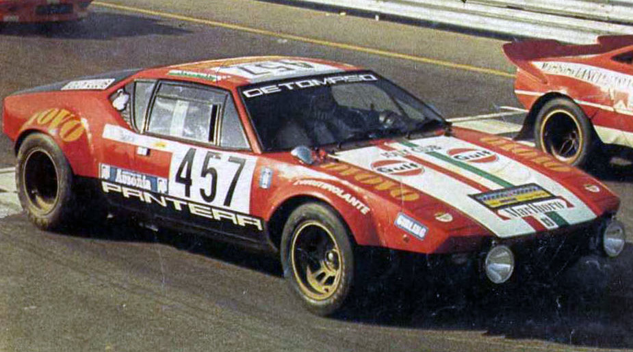 Morano sul Po (Alessandria, Italy), Casale Circuit, October 1973. Mario Casoni's De Tomaso Pantera Gr. 4 of Jolly Club racing team (no. 457) at the start of Casale Monferrato special stage valid for the 1973 Automotive Tour of Italy.